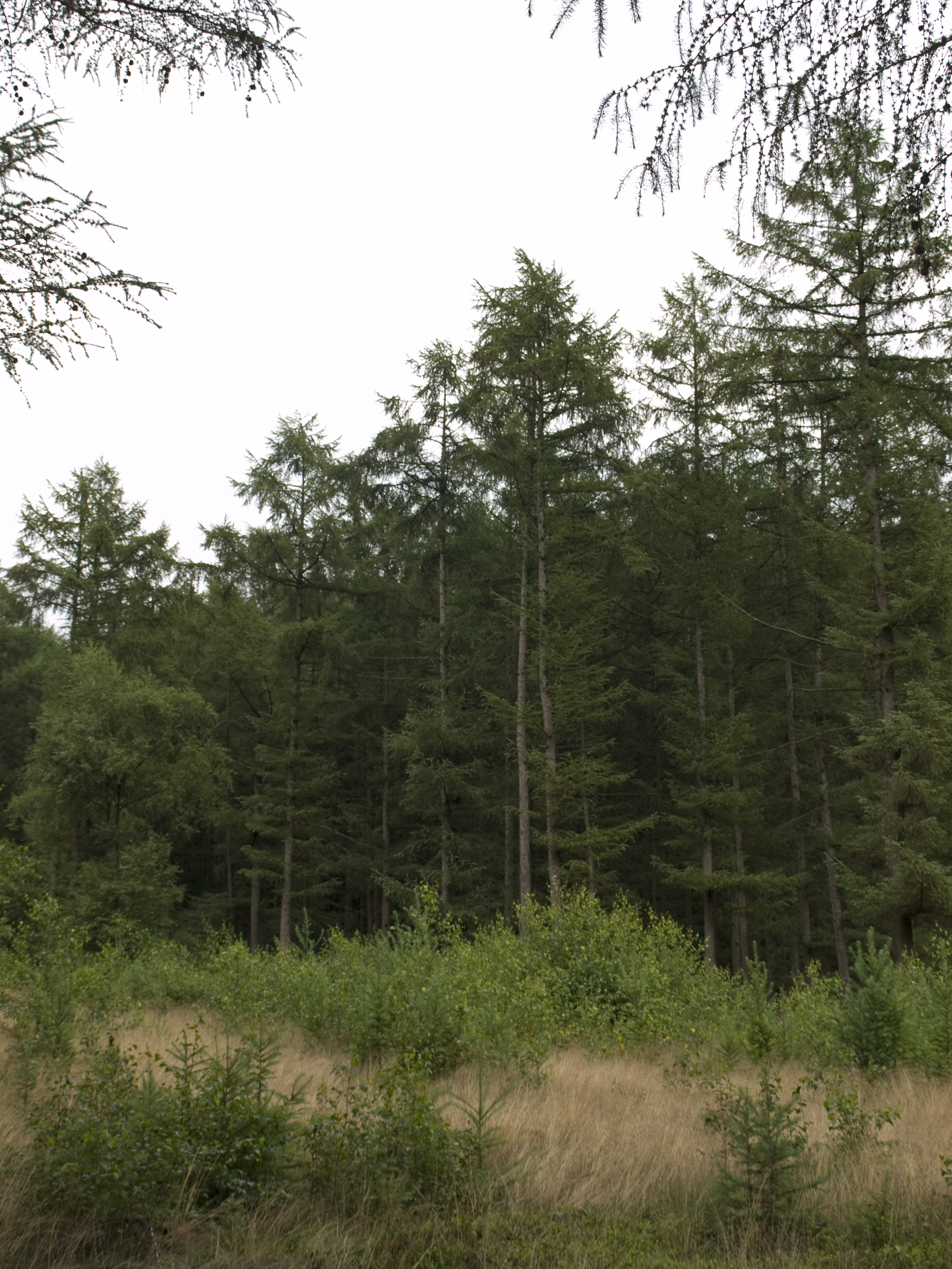 Larch forest in NP Utrechtse Heuvelrug. On Trekvogelpad, West of Defensieweg